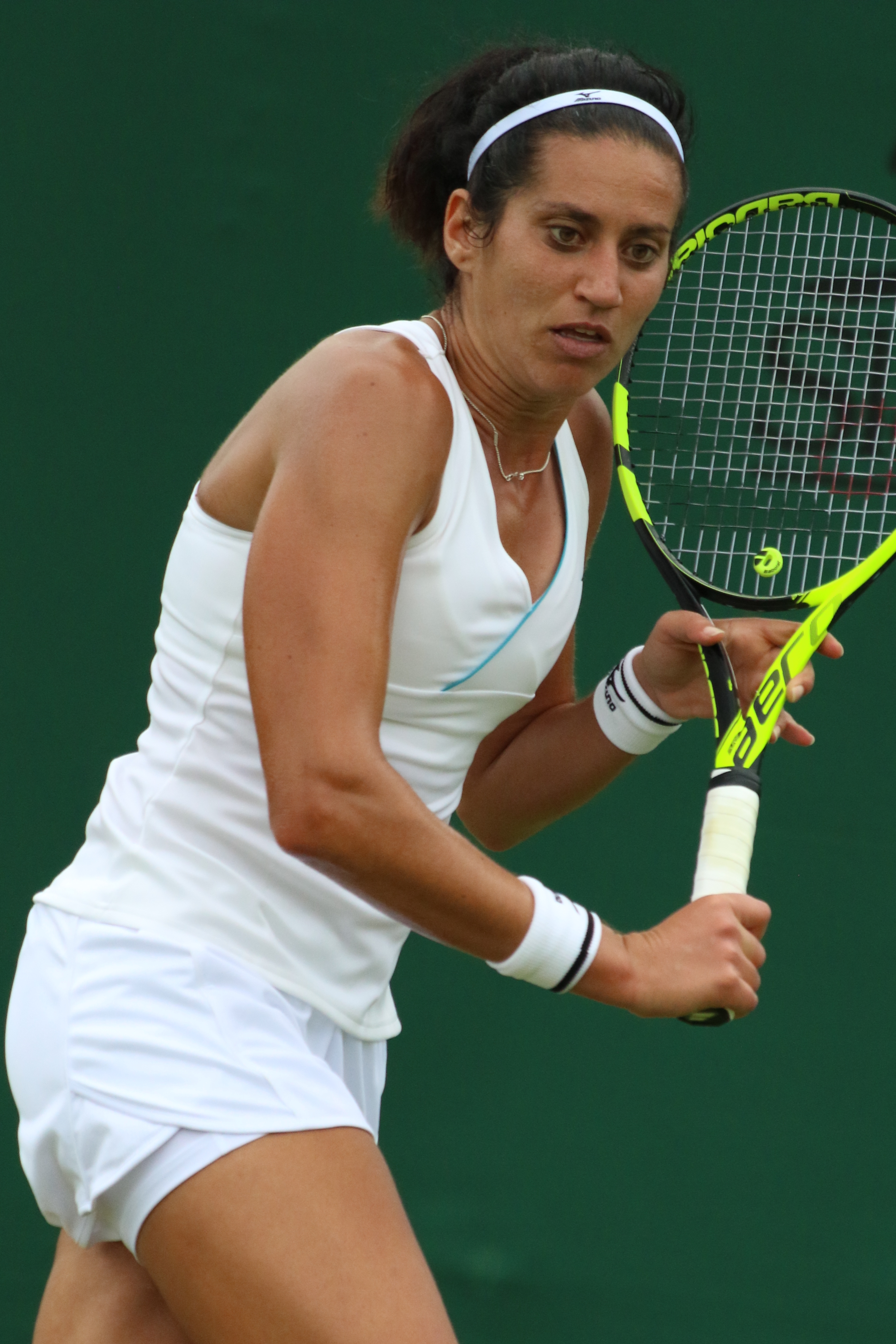 2019 Wimbledon Qualifying Tournament.